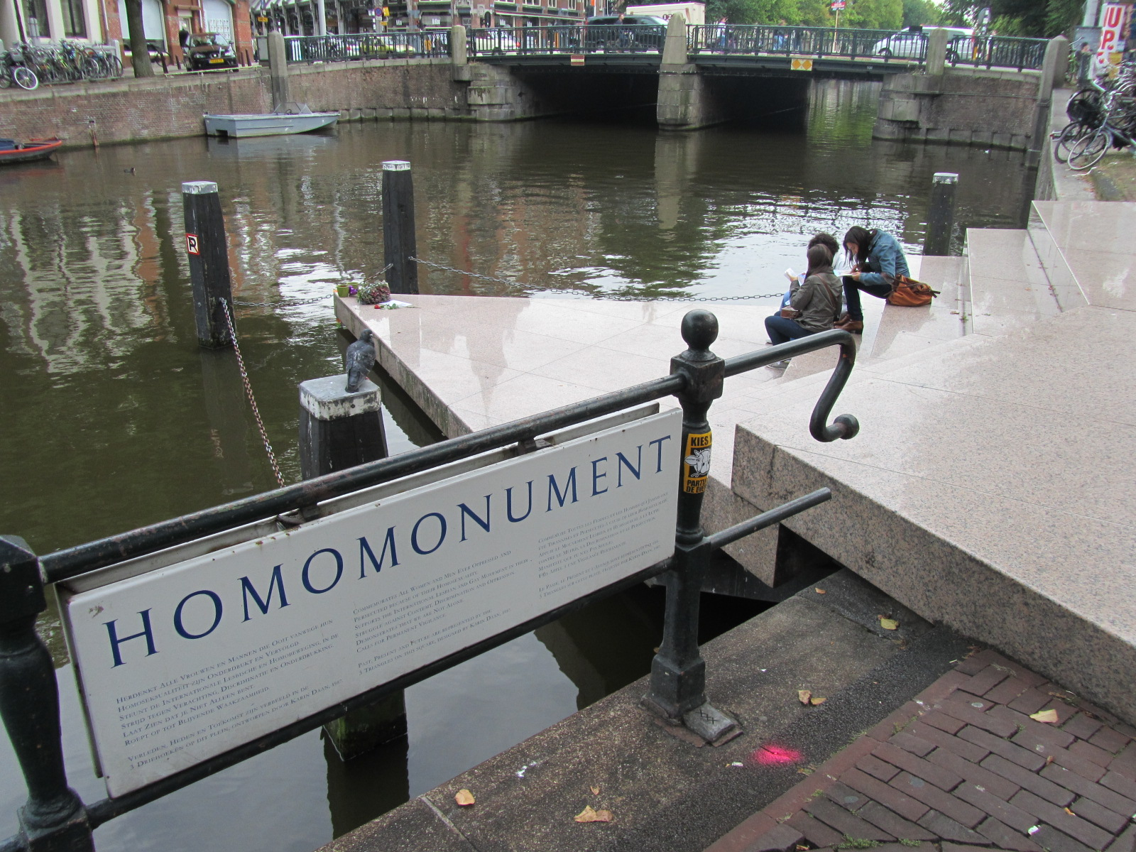 The Homomonument in Amsterdam, showing the info sign and one of the three triangles